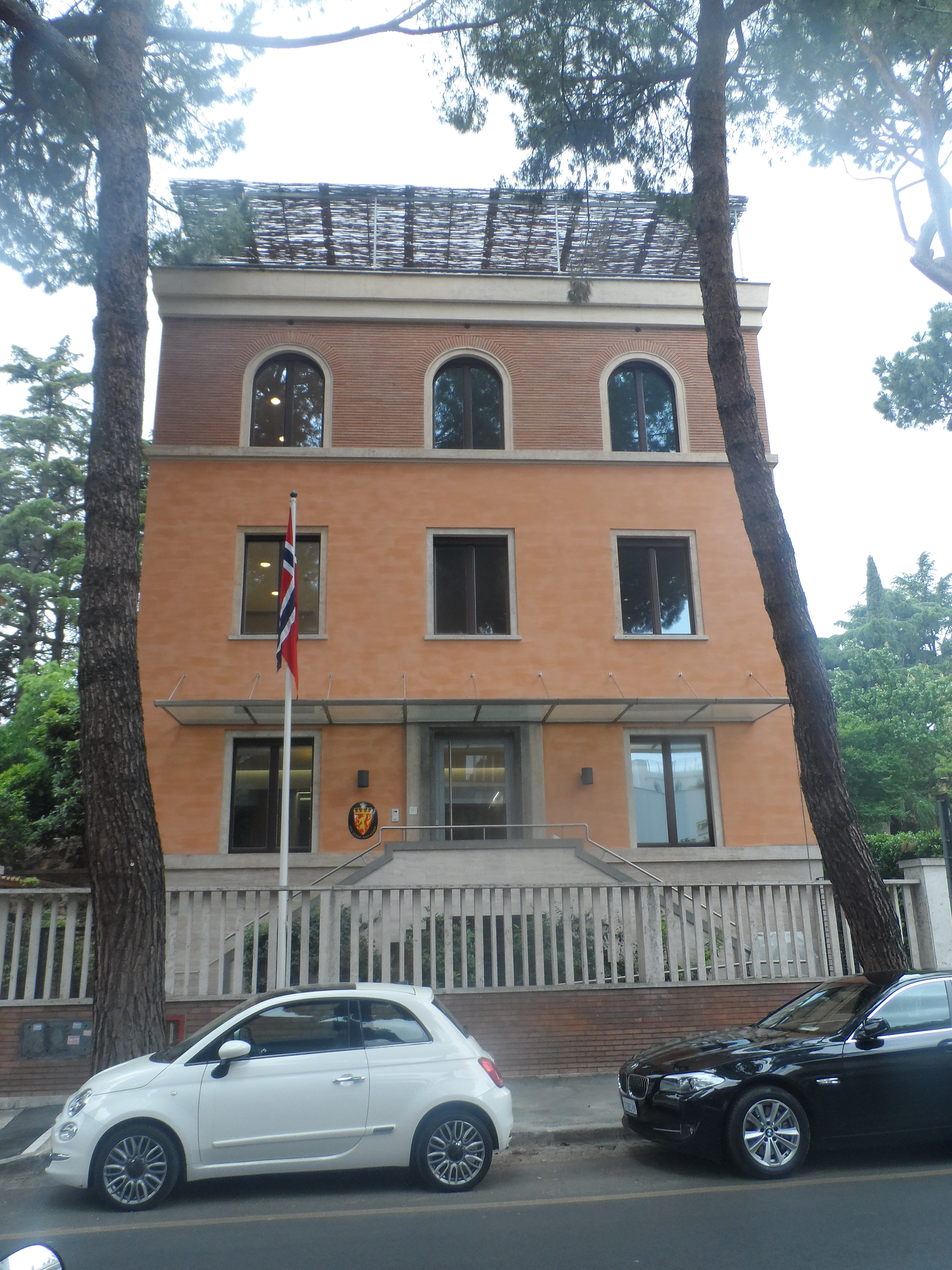 Norwegian embassy, Rome